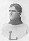 J E Platt